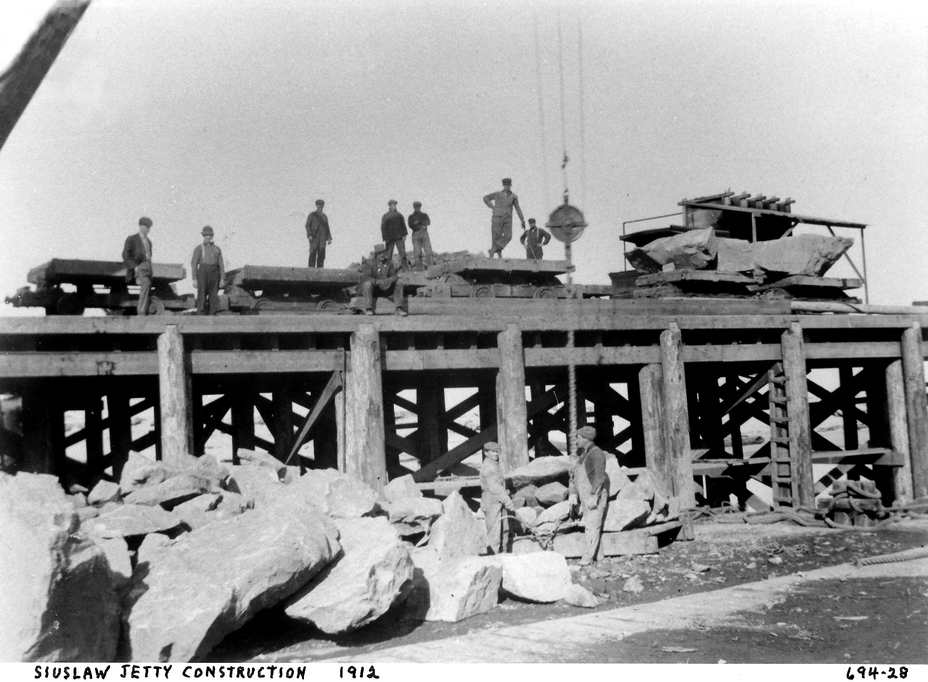 Siuslaw River jetty construction crew: U.S.Army Corps of Engineers built tram on pilings to transport rock to site of jetties.